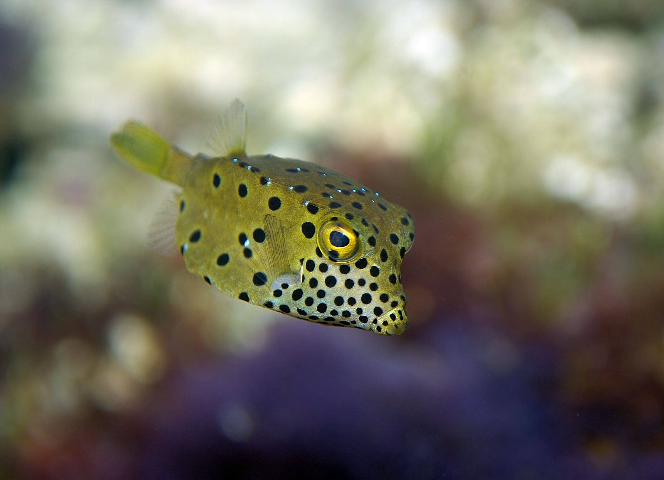 Austria, Vienna, Tiergarten Schönbrunn